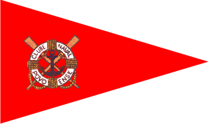 Burgee of Clube Naval Povoense